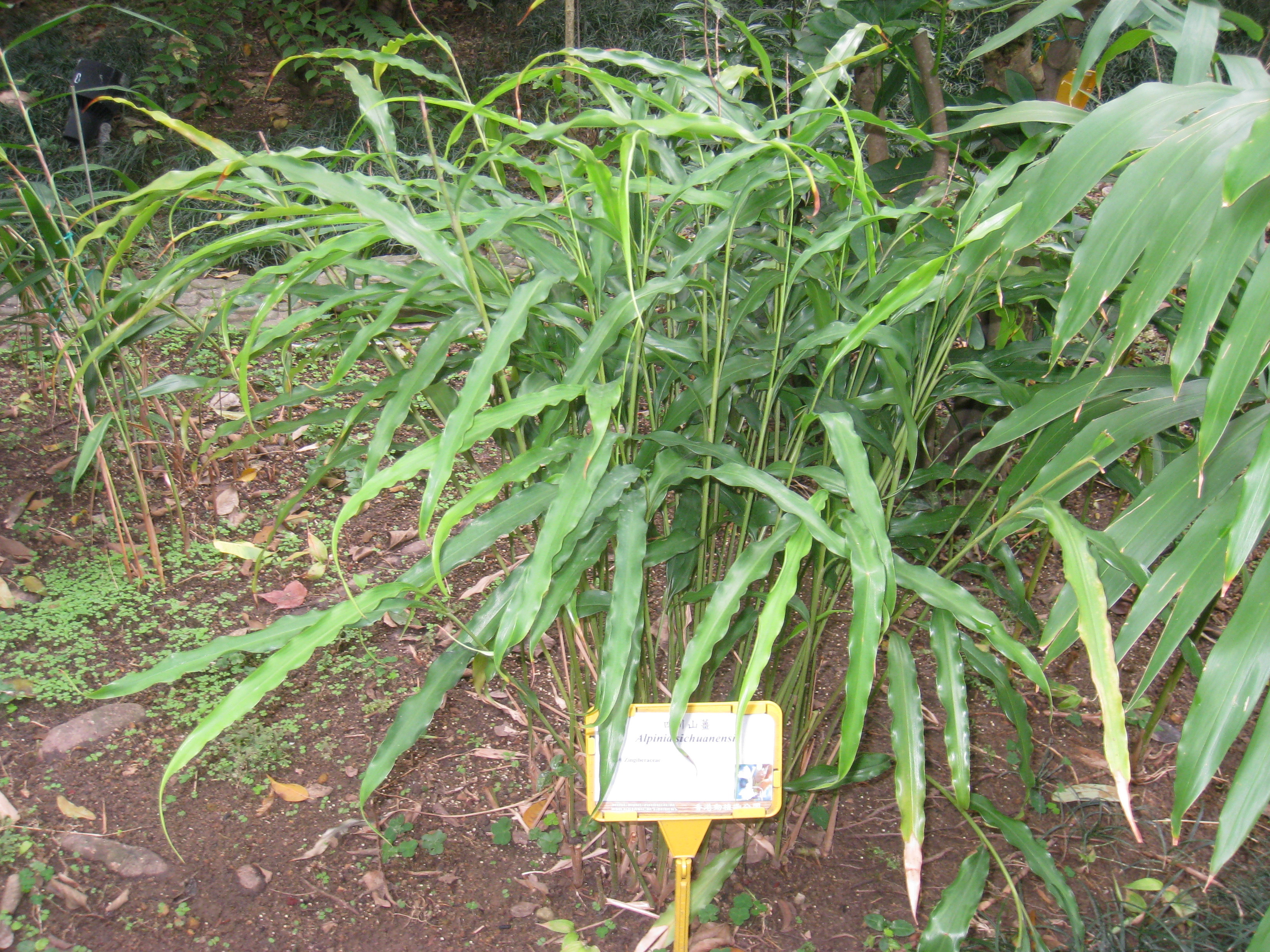 Alpinia sichuanensis. Plant specimen in the Hong Kong Zoological and Botanical Gardens, Hong Kong.